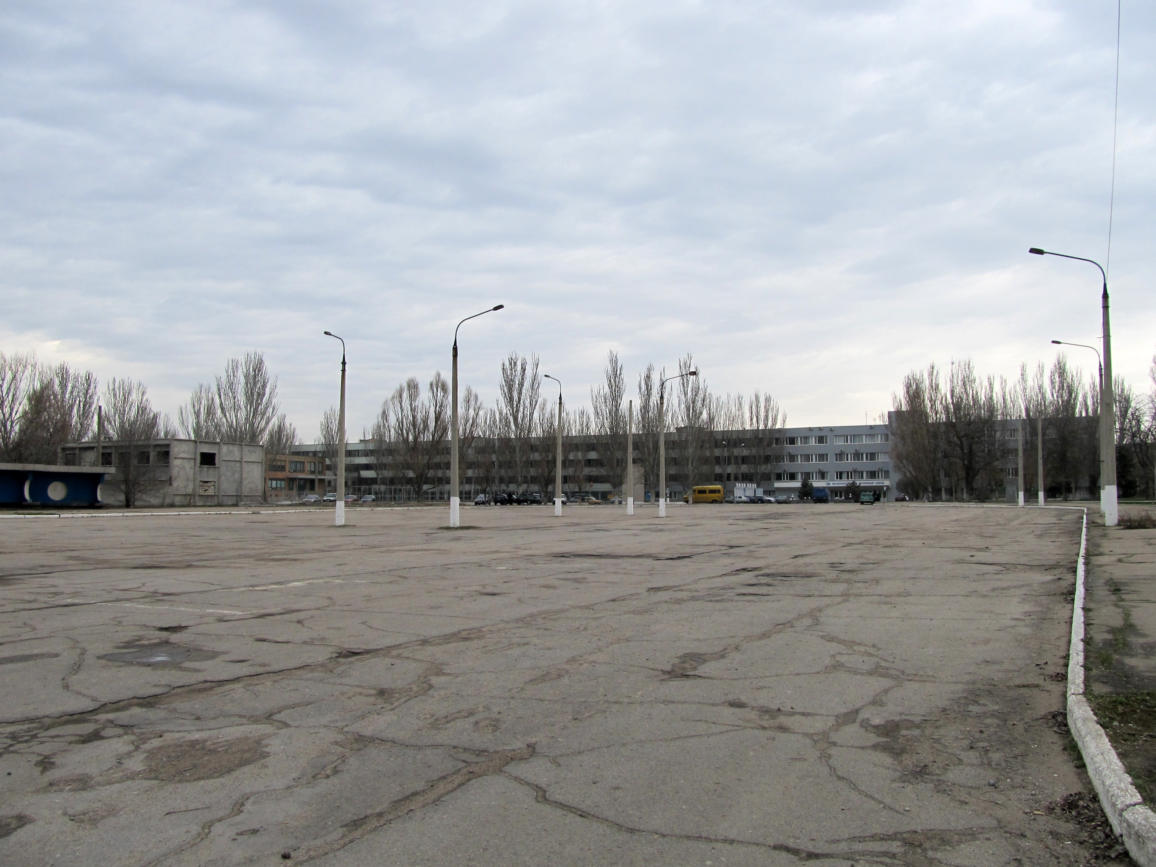 Timoshenko Square (Melitopol, Zaporizhia oblast, Ukraine).